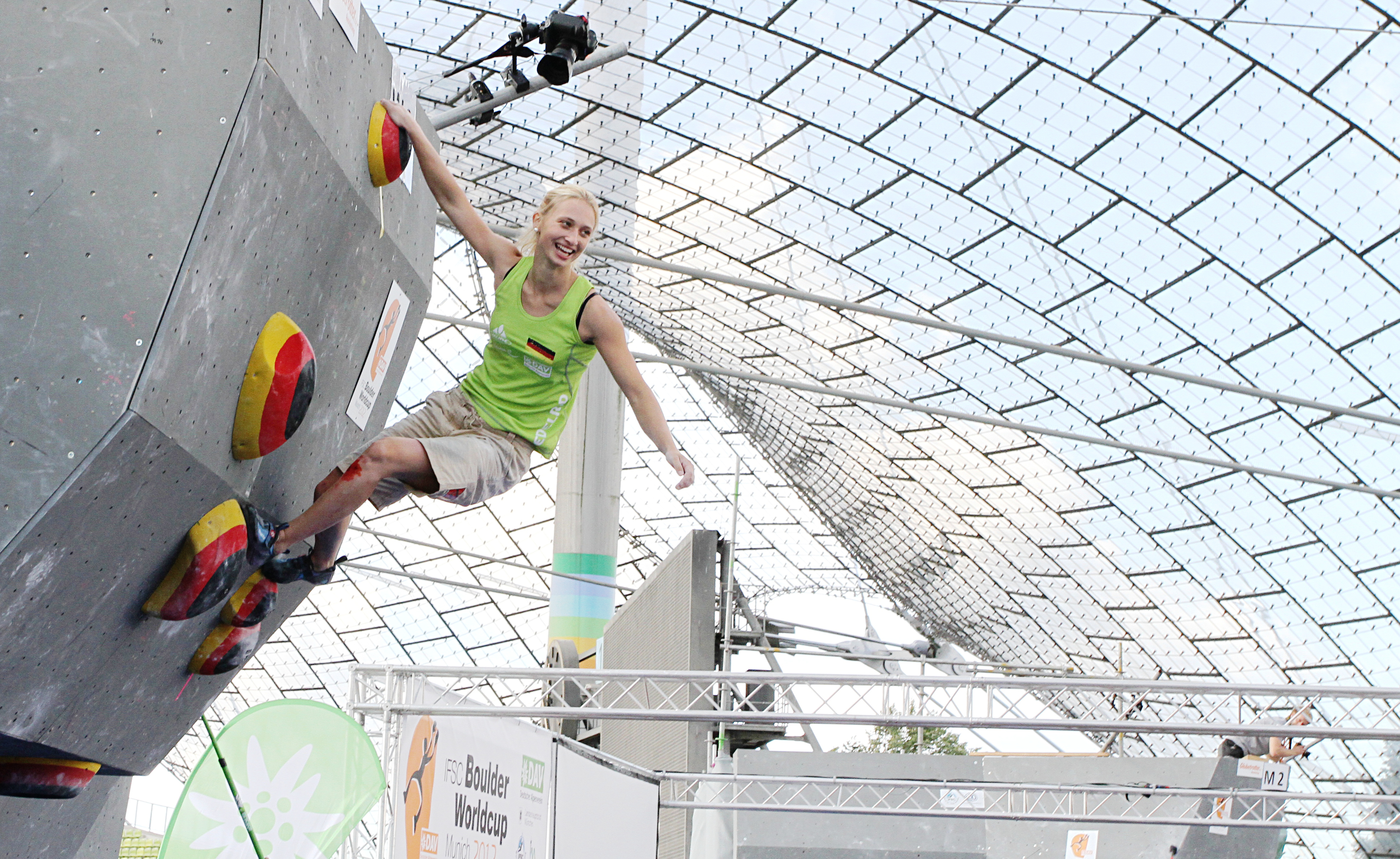 Monika Retschy, GER at the Boulder Worldcup 2012 in the Munich Olympic stadium